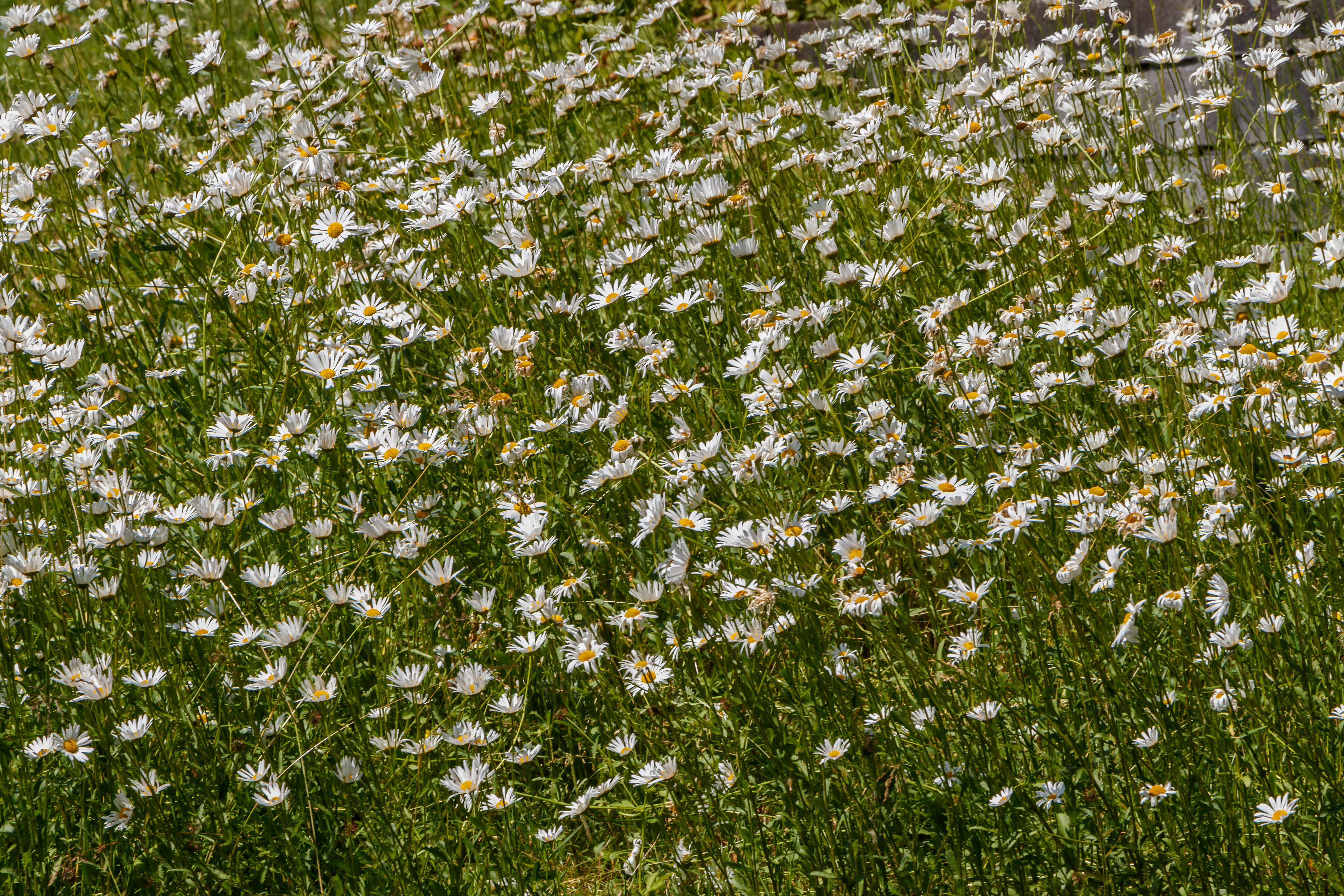 Leucanthemum vulgare Lam. (1778), Oxeye daisy; Zoologischer Stadtgarten Karlsruhe, Karlsruhe, Germany.